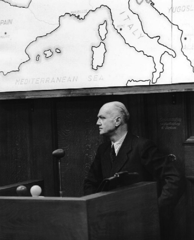 Erwin von Lahousen testifying before the Nuremberg war crimes tribunal. U.S. Government Photo (1946)